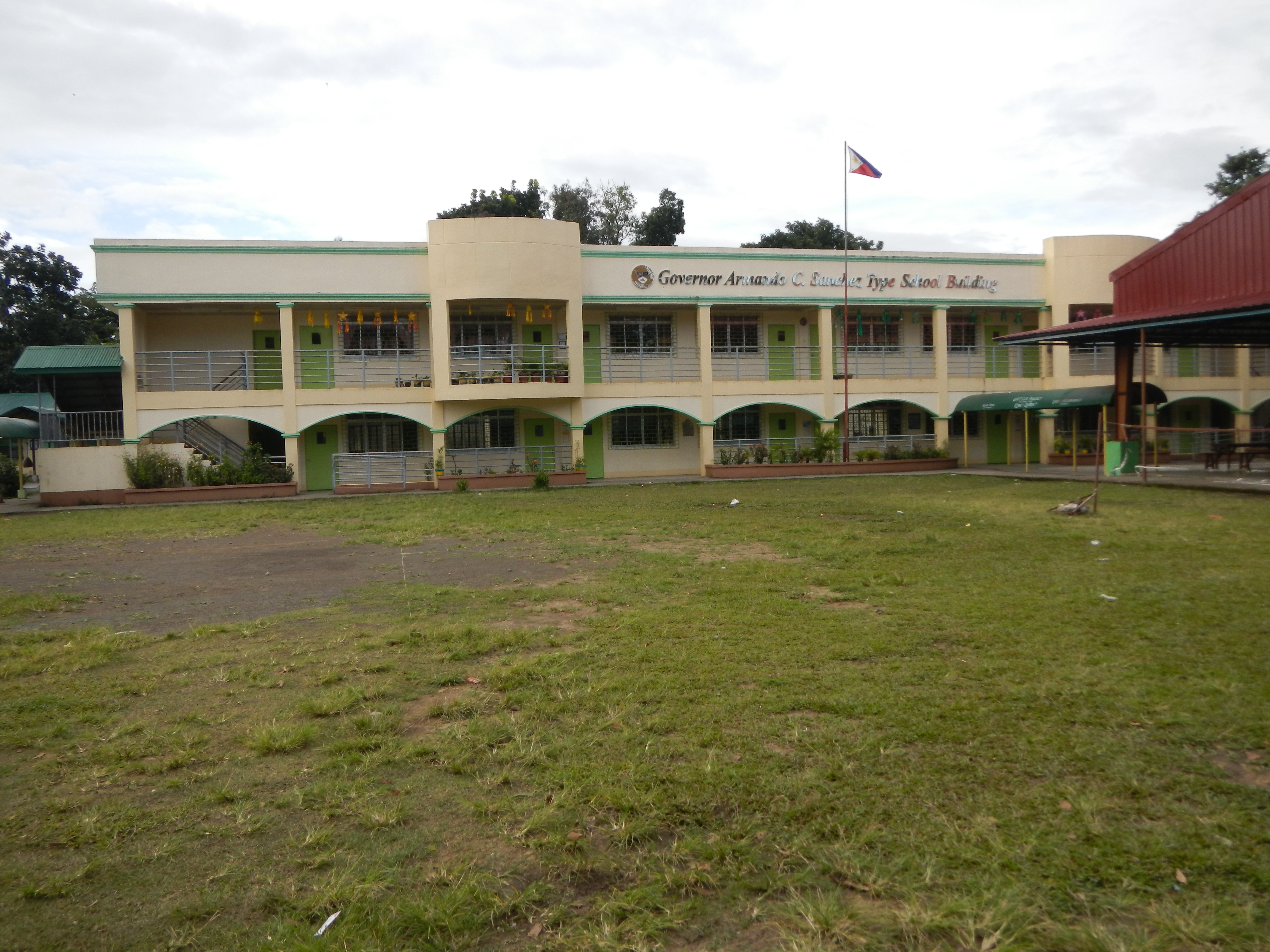 Upload Wizard photos of -- the - Centro, downtown, main road, Town Proper, Welcome Sign Monument, and Central Elementary School near the Town Hall and the Immaculate Conception Parich Parish Church of Mataasnakahoy, Mataas na Kahoy, Batangas[1] (a 4th class municipality in the Province of Batangas, Philippines; 2010 census, it has 27,177 people; created by virtue of Executive Order No. 308 signed by George Butte, acting Governor General of the Philippines on March 27, 1931, effective January 1, 1932 has 16 barangays); [2] Geographical location: Batangas, Region 4, Philippines, Asia Geographical coordinates: 13° 57' 30" North, 121° 6' 50" East. [3] Mataasnakahoy Municipal Hall Poblacion Coordinates: 13°57'37"N 121°6'52"E, covered court, plaza.